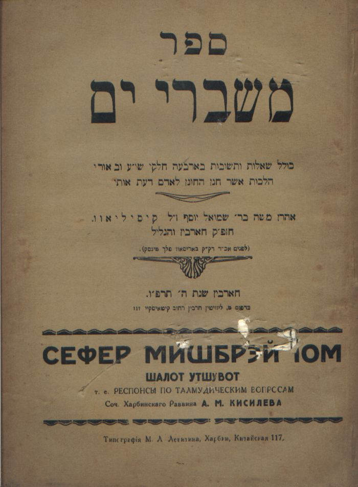 Hebrew responsa MISBEREI YAM, Printed in Harbin, 1926